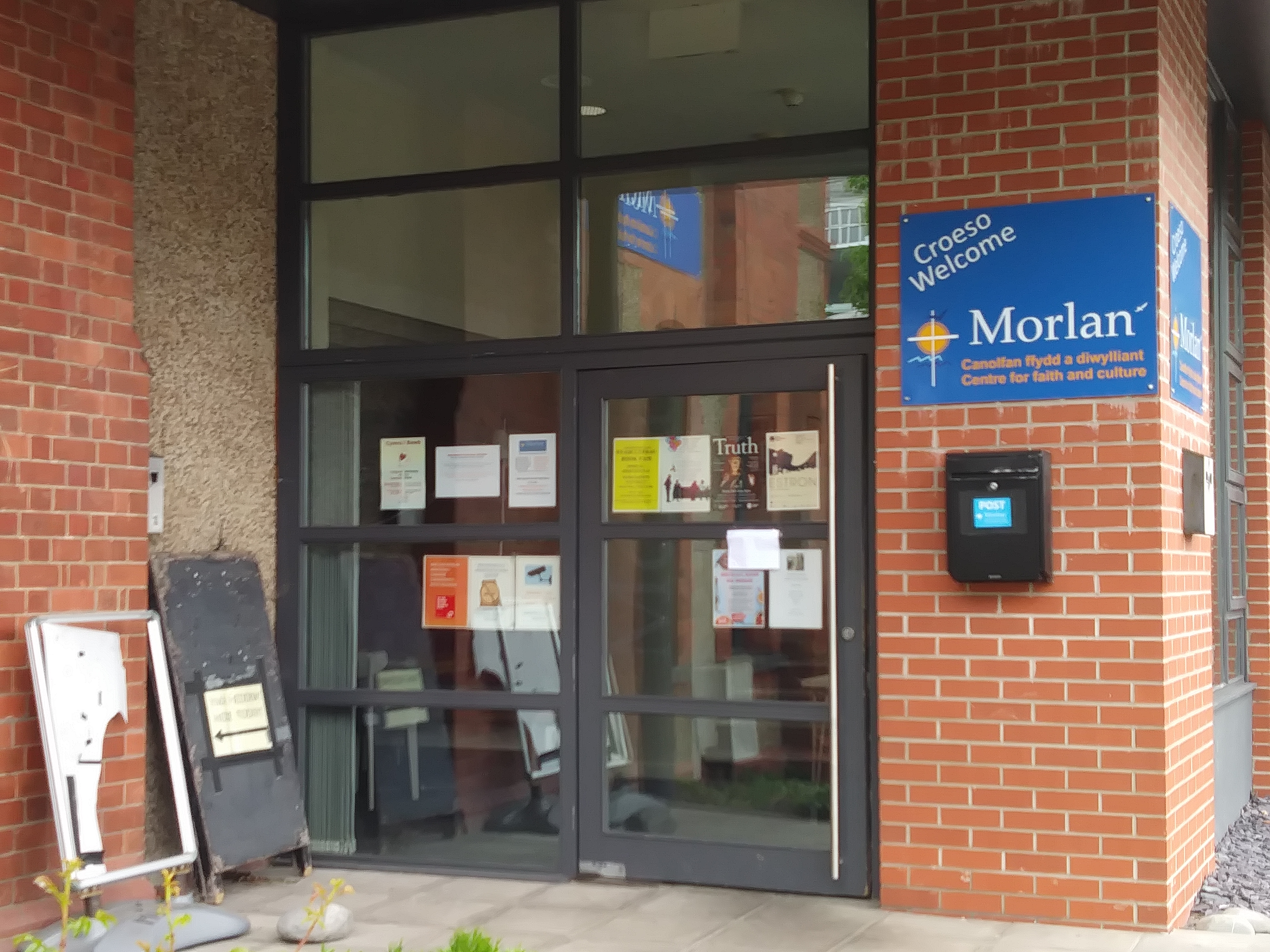 Canolfan y Morlan, Aberystwyth, entrance